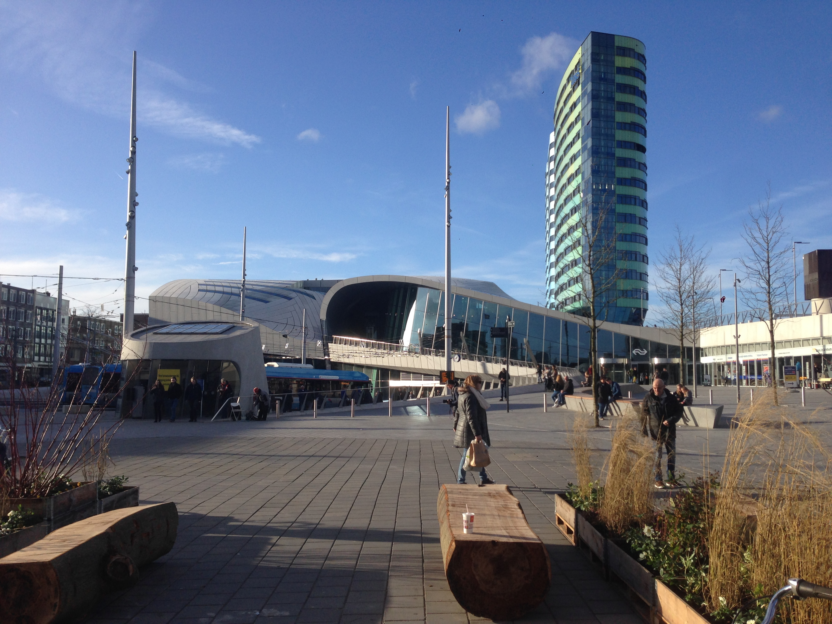 Arnhem Station